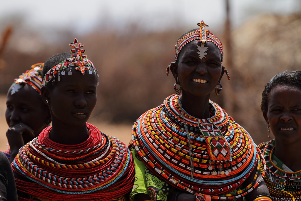 Samburu Women Portraits.